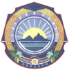 Coat of arms of the former Orizari Municipality, Macedonia.